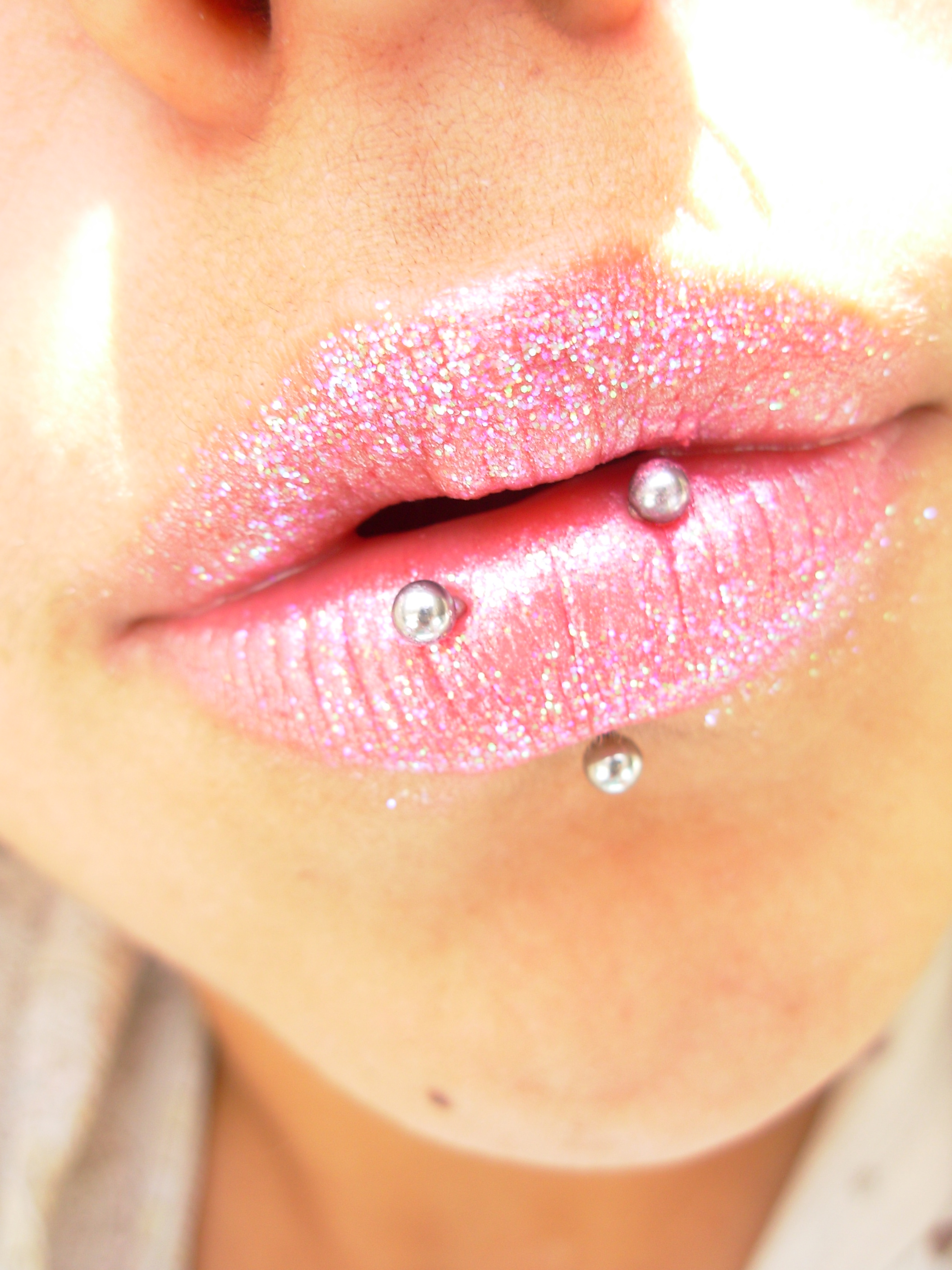 yeah, I got sparkly lips.. my peircing is all off center...lol..it's cuz I chew on one side..